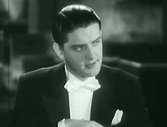 Screen Capture of Hugh Trevor, from the 1930 American film The Pay-Off